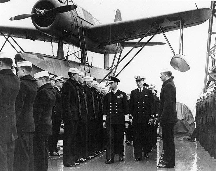 King George VI inspects the crew of USS Washington (BB-56), 7 June 1942. Note Vought OS2U floatplane on the ship's starboard catapult.